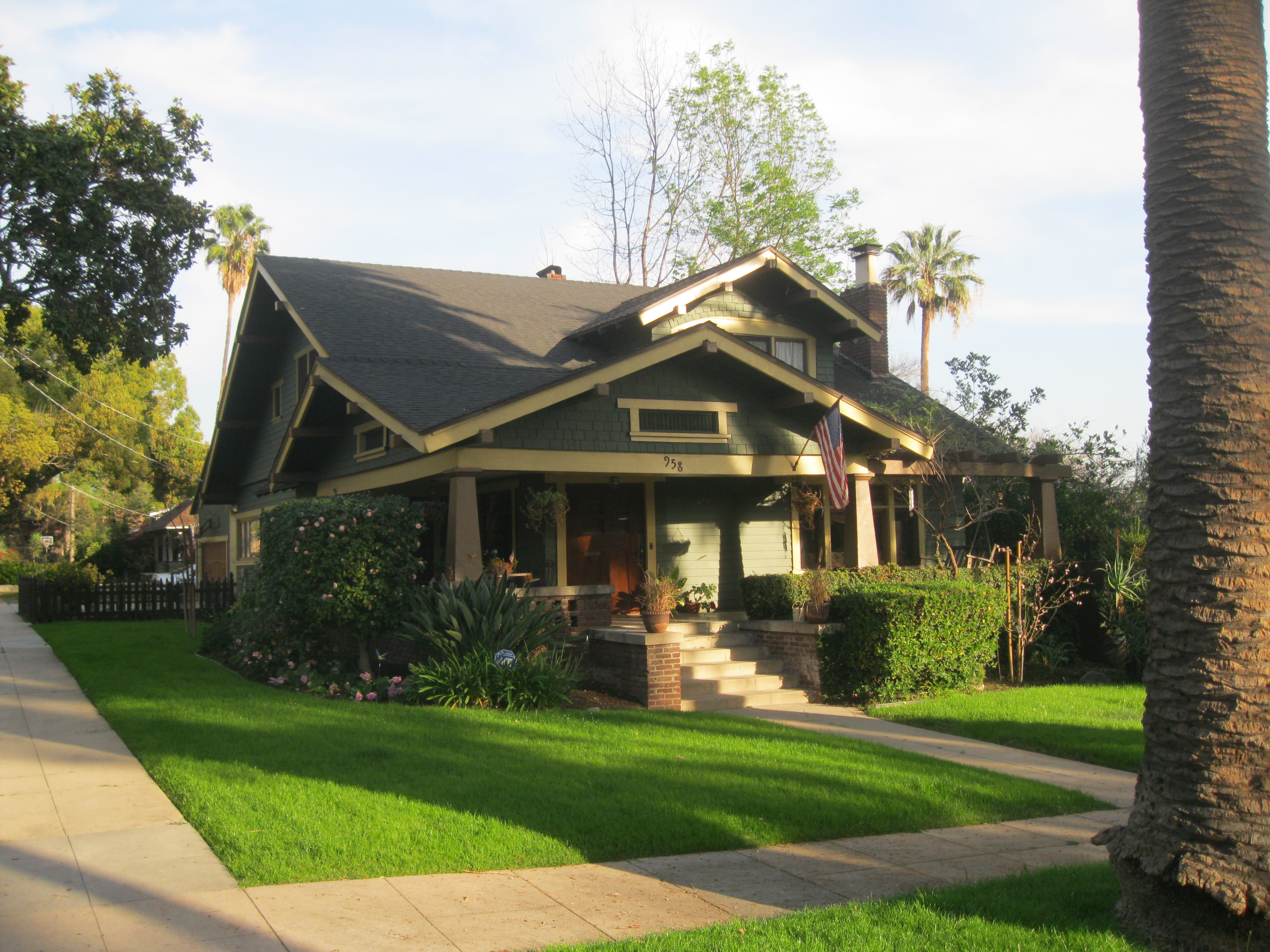 House at 958 Oakland Avenue in the Orange Heights-Barnhart Tracts Historic District in Pasadena, California.